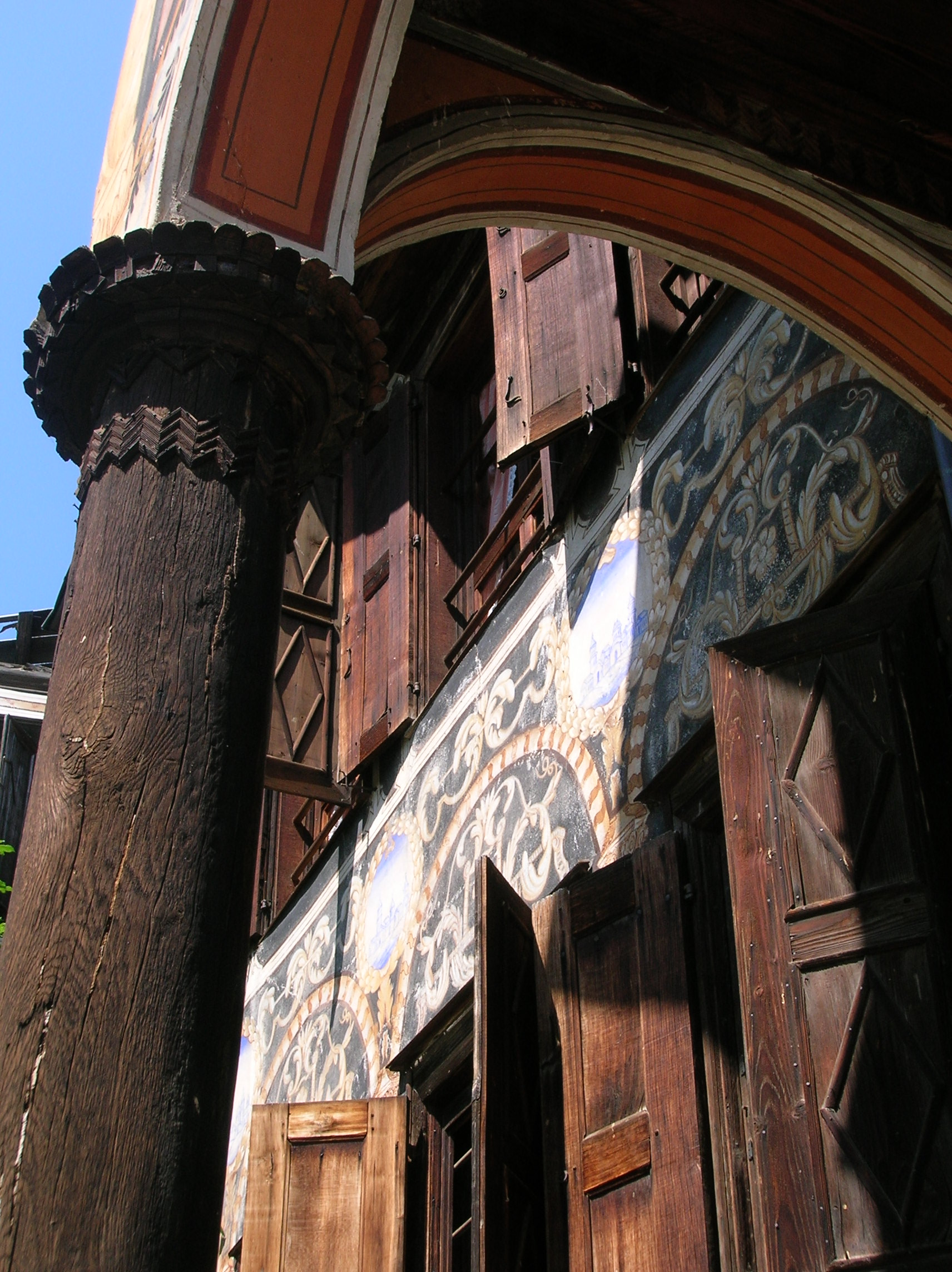 Detail of Oslekov House, in Koprivshtitsa (Bulgaria)